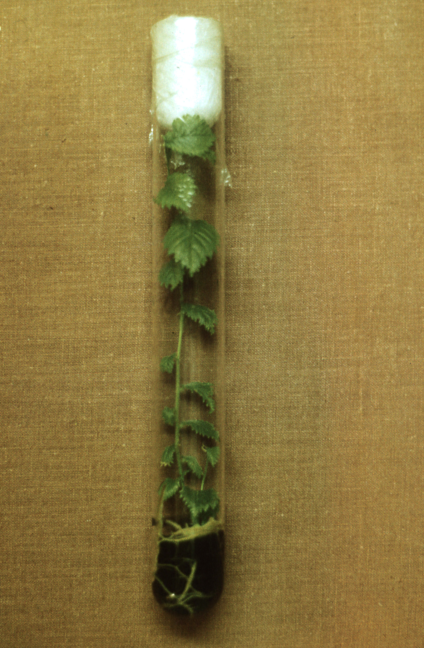 In vitro propagation of elm resistant clones - Tissue culture lab. University of Belgrade, Department of Landscape architecture and horticulture (photo: Mihailo Grbić)